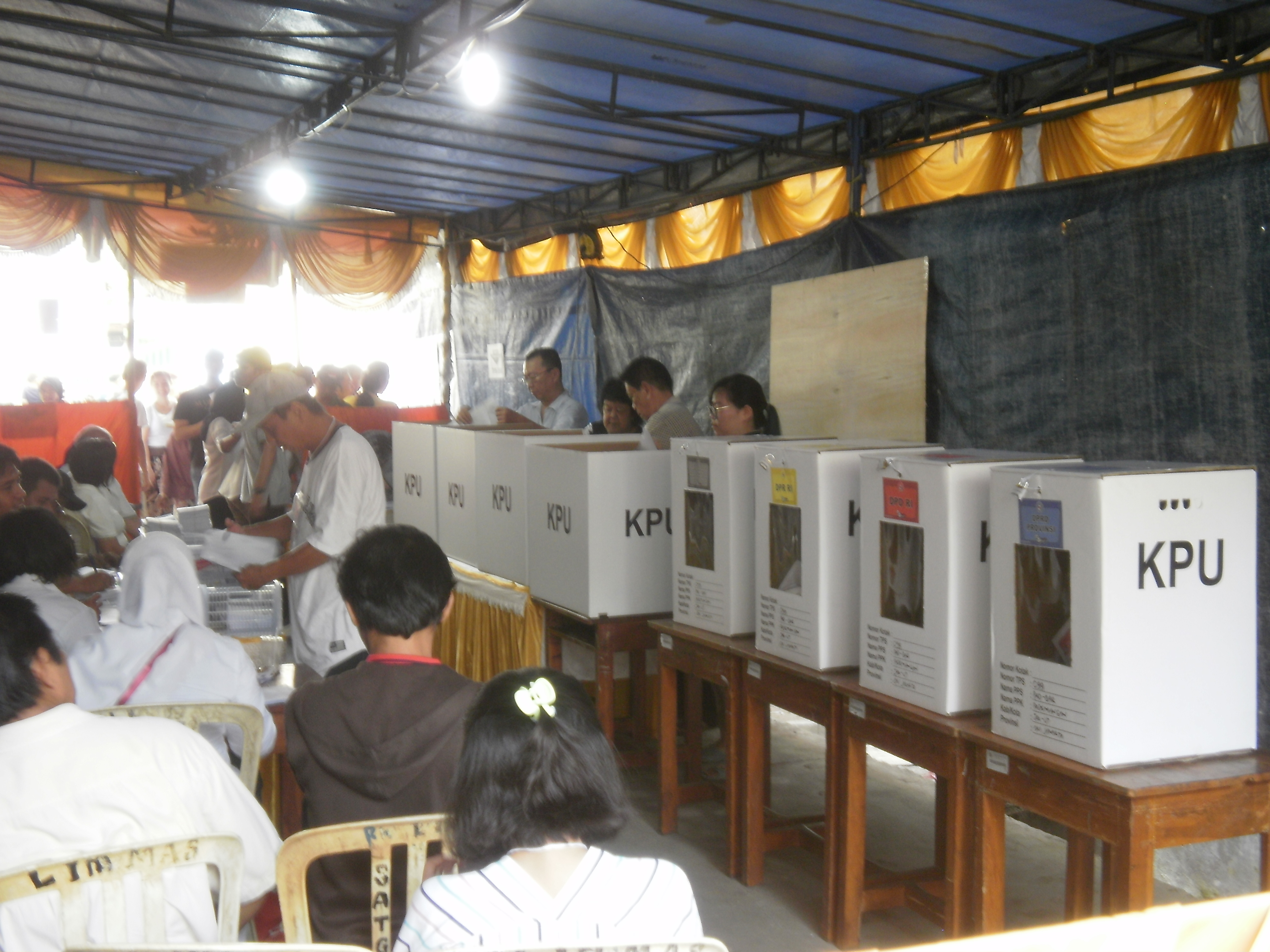 The election process in TPS 099 on North Jakarta, at the 2019 Indonesian General Election.